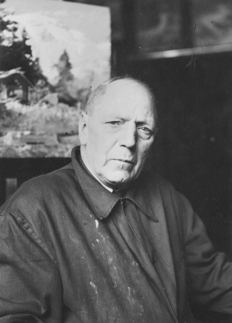 Ernst Liebenauer in his studio